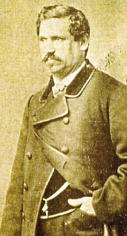 Photo of Cosme García (1818-1874)